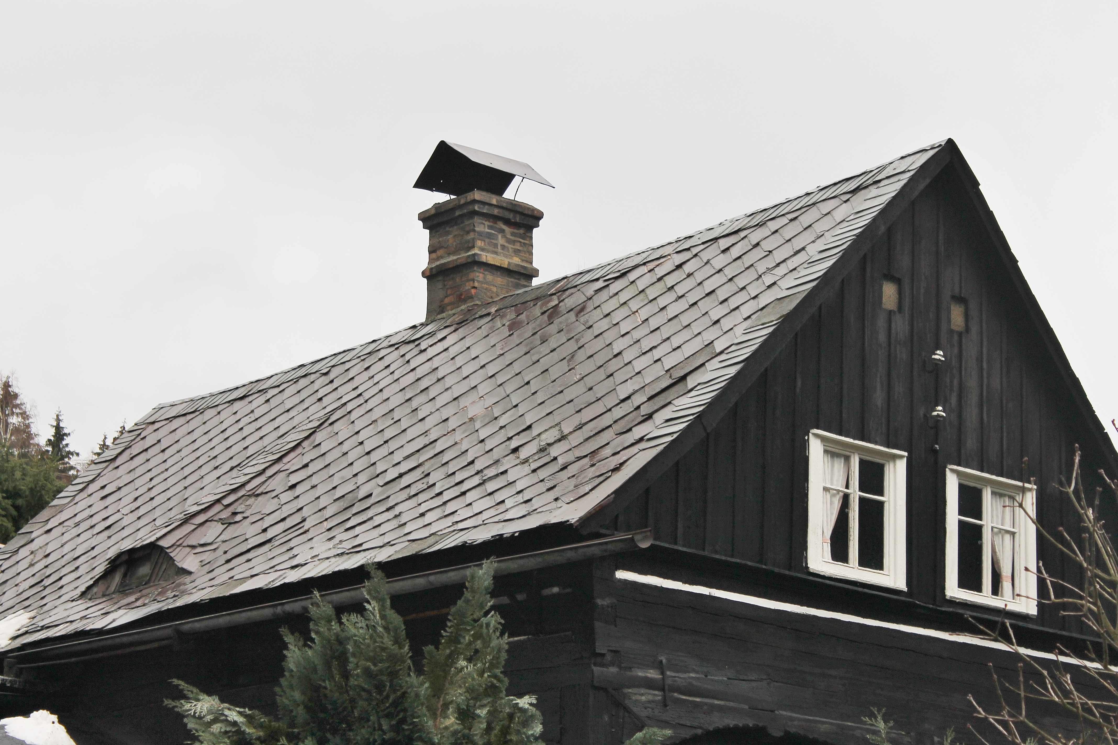 Hillův Mlýn, okres Děčín, Ústecký kraj, dům č. p. 20